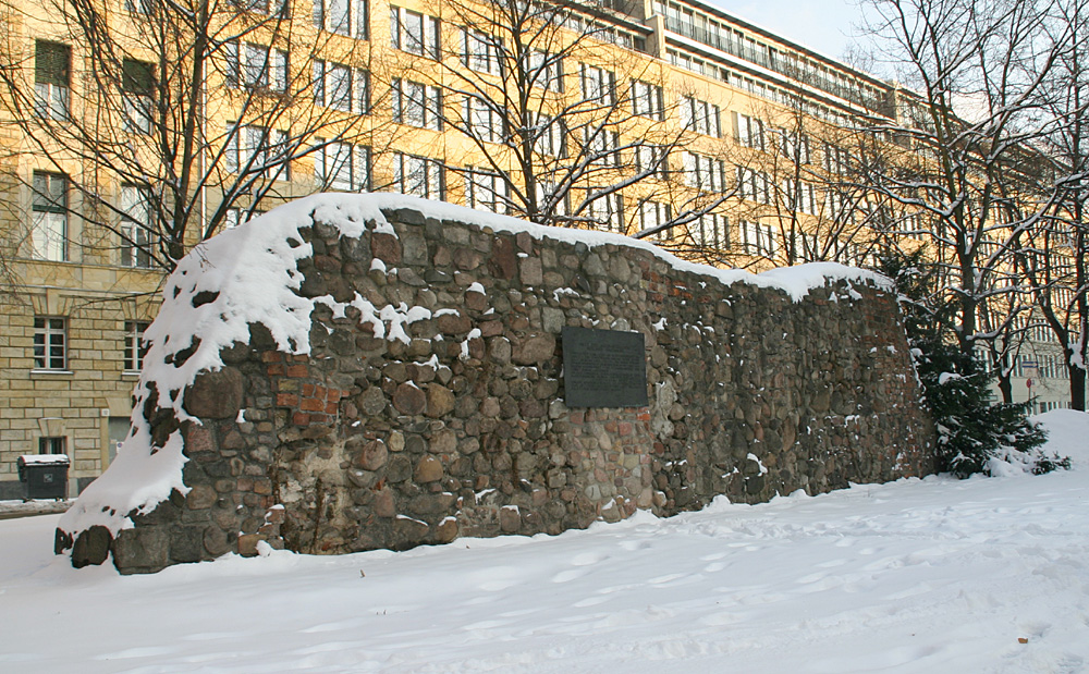 fragment of the old city wall; Berlin, Germany